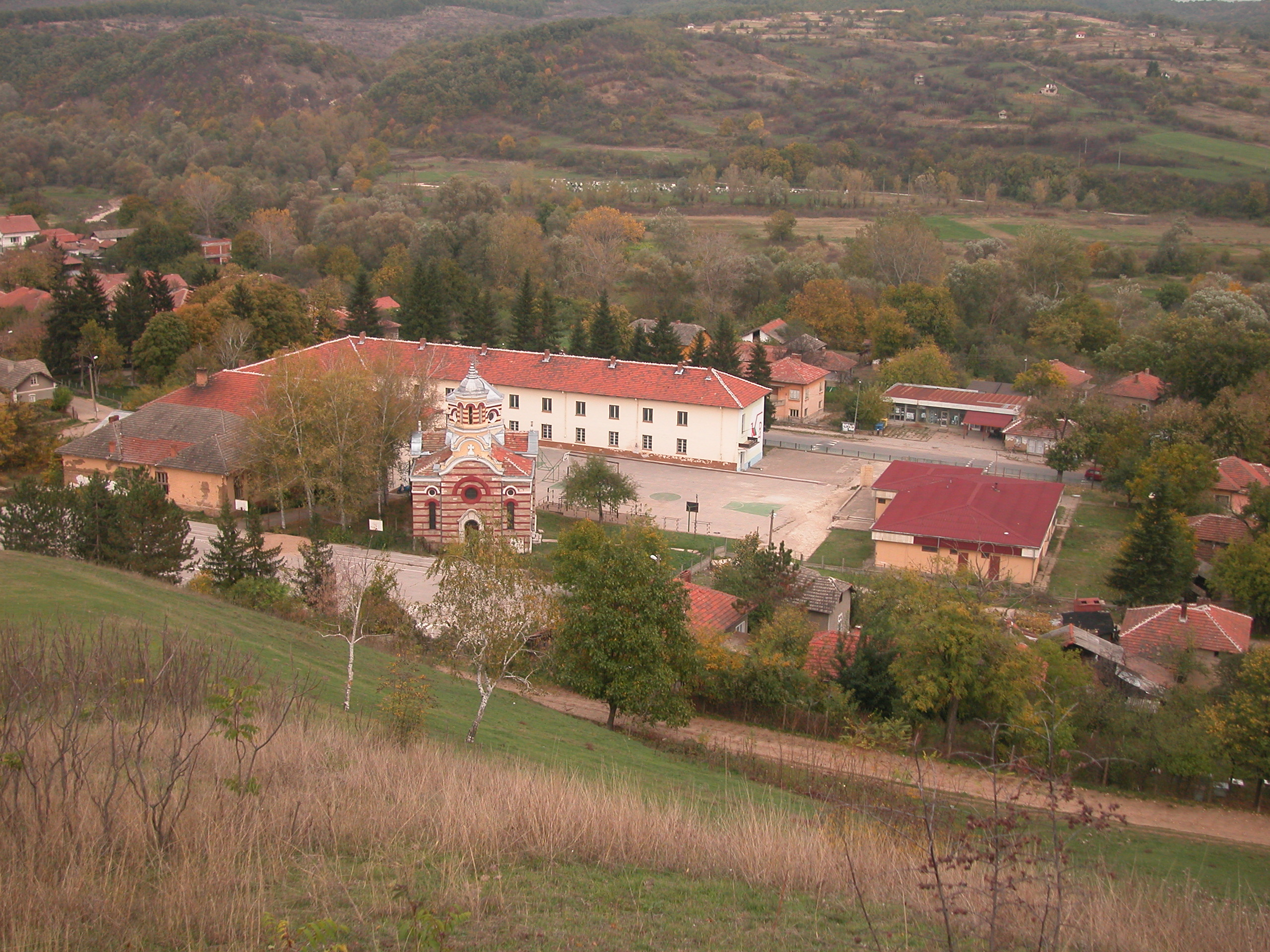 Photo of the primary school and the Ortodox Church of the town of Dimovo, NW Bulgaria